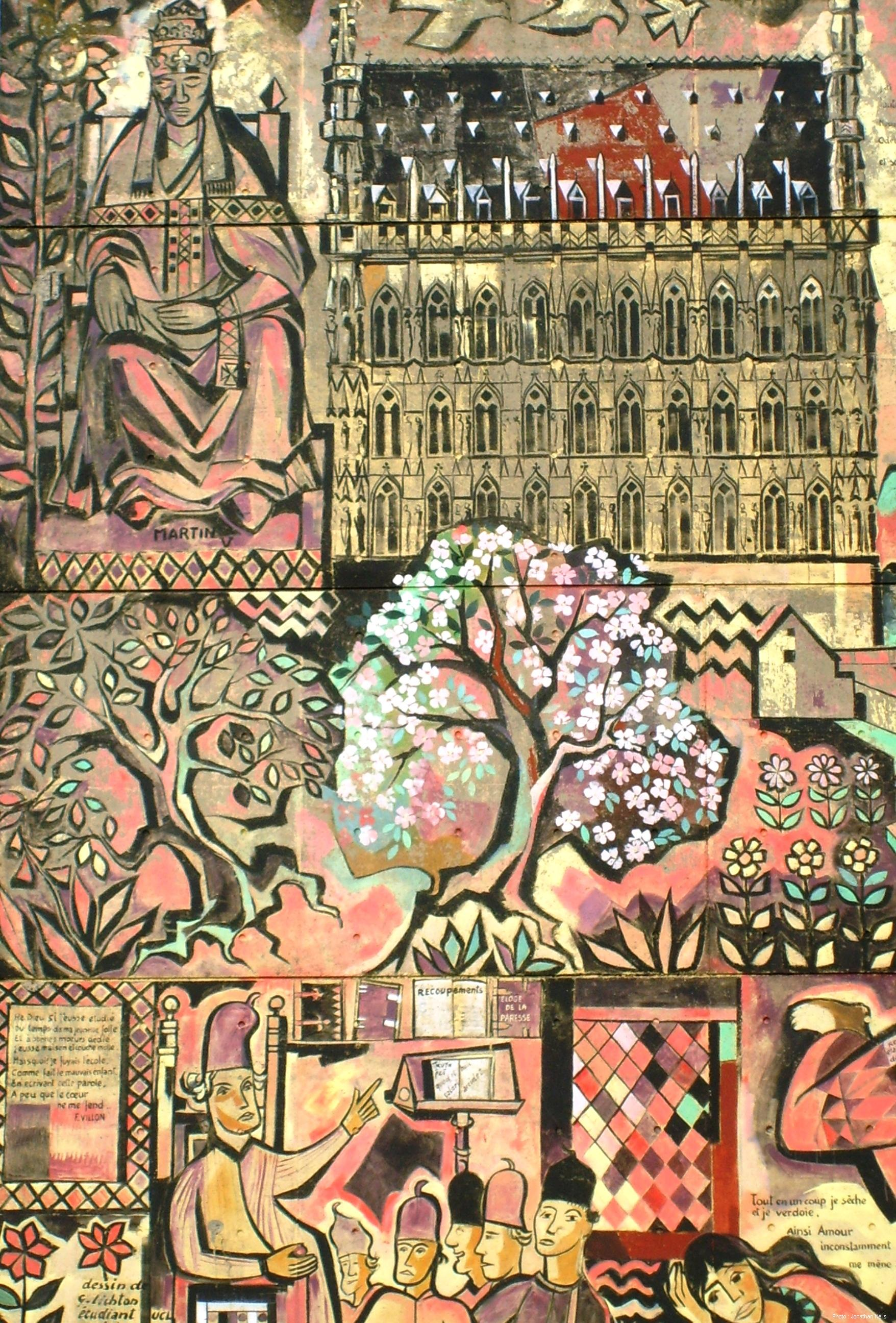 Louvain-la-Neuve, Belgium, Petites histoires d'une grande université (“Short stories about a great university”), mural by Claude Rahir (1984), ruelle de la Lanterne magique